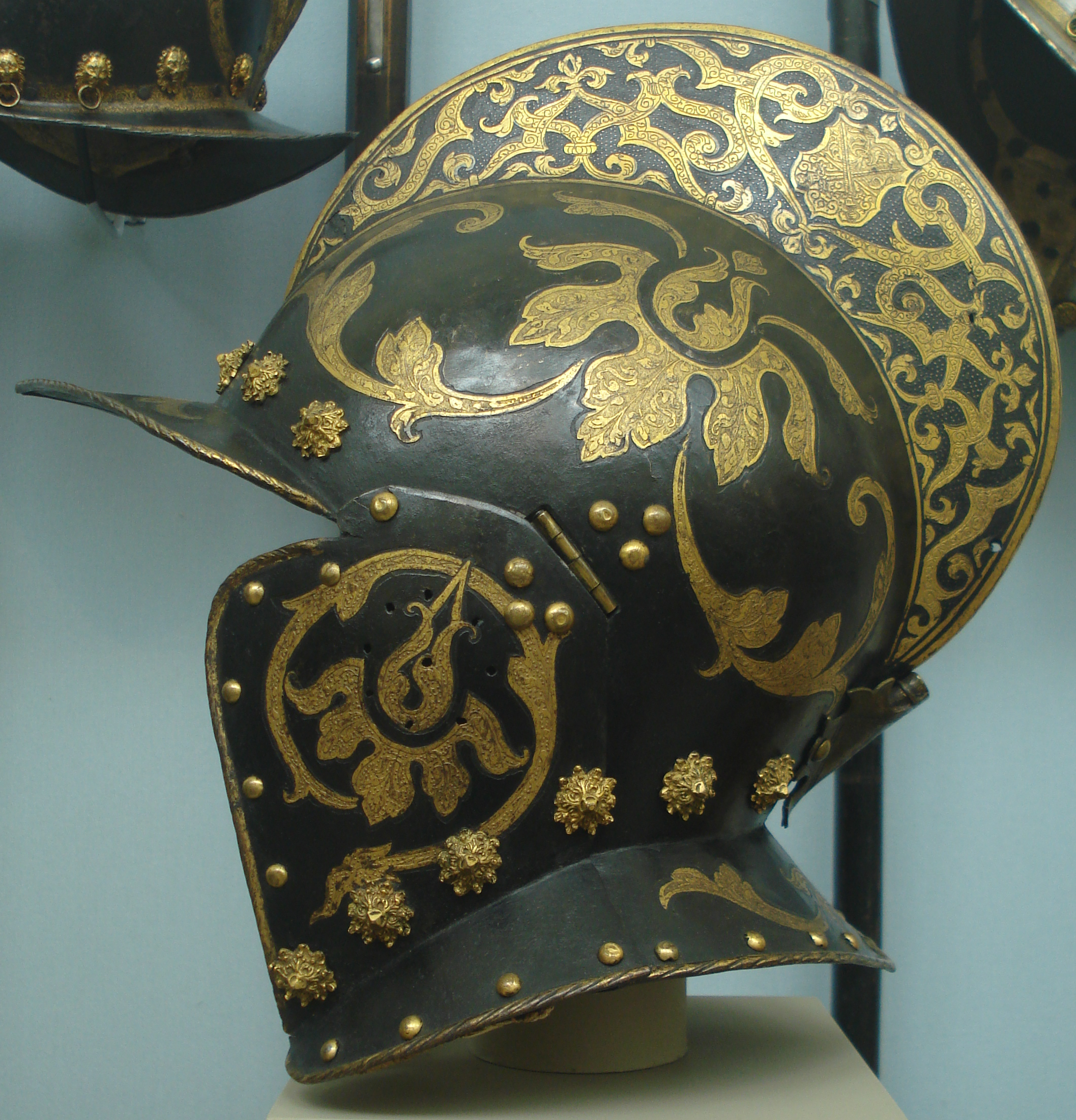 Burgonet - steel, etched, gilt and painted, gilt brass, fabric. Germany, Augsberg, c. 1575-1600. In the collection of the Metropolitan Museum of Art.